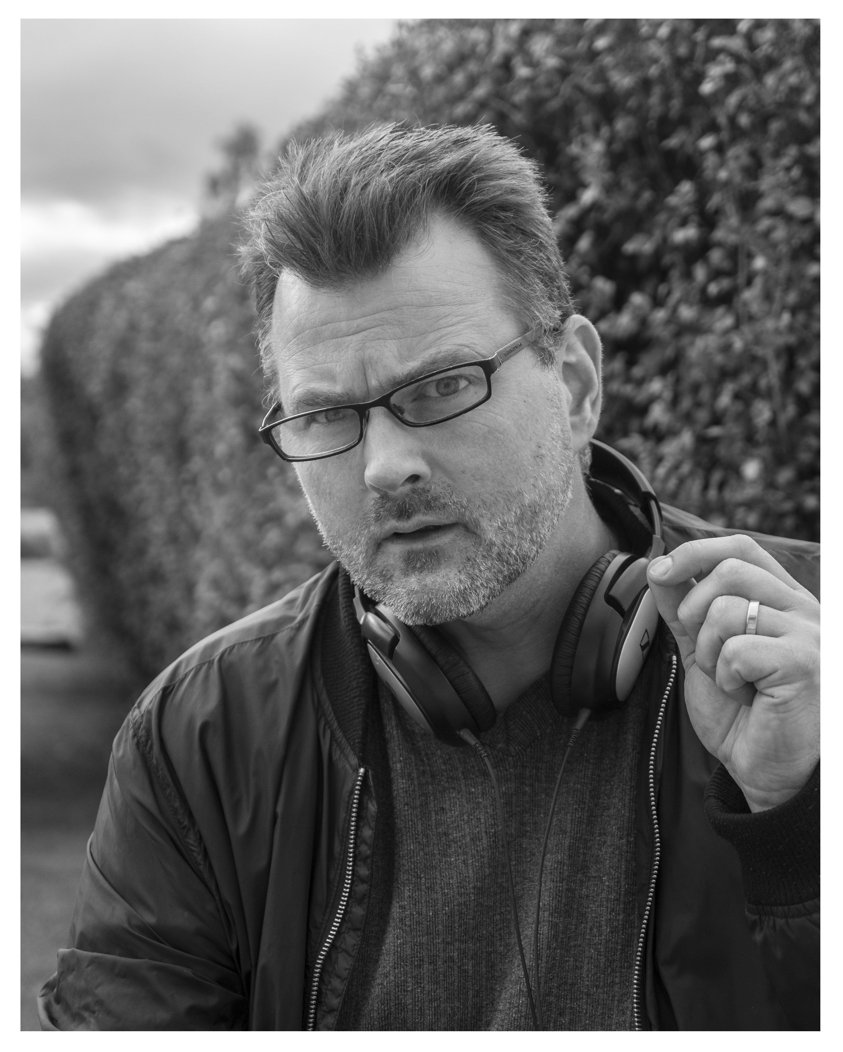 Filmmaker Markus Strömqvist directing.